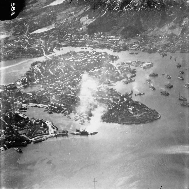 Royal Air Force Operations Over Norway, April 1940. A German supply ship, and a wharf warehouse on the Skoltegrunnskaien, blazing fiercely following an RAF attack on Bergen harbour.